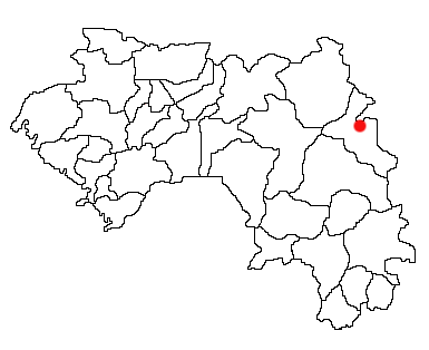 Mandiana, Guinea Location Map; created with the GIMP. Made by User:Acntx.